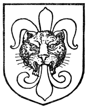 Fig. 332.—Leopard's face jessant-de-lis.